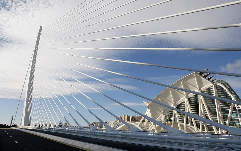 Assut de l'Or bridge, in Valencia